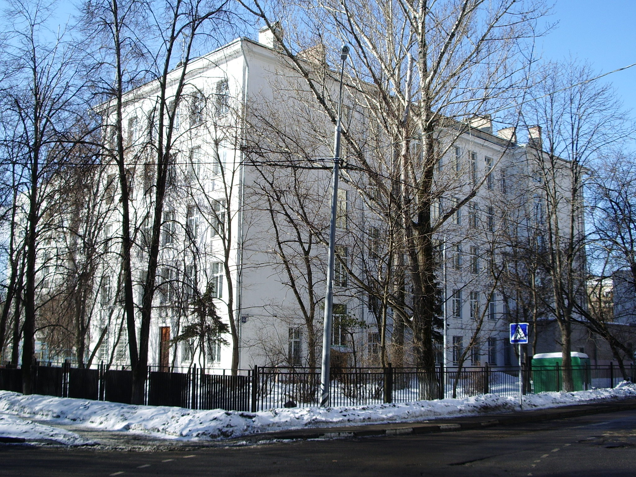 Moscow, Aeroporta passage, 10. School №1287